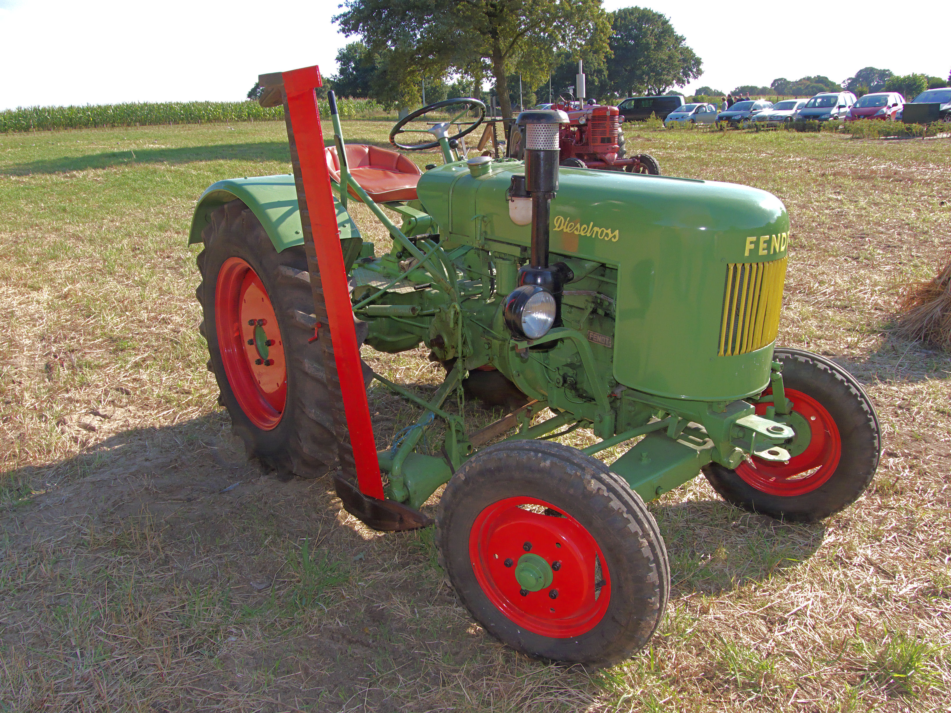 Fendt Dieselross tractor